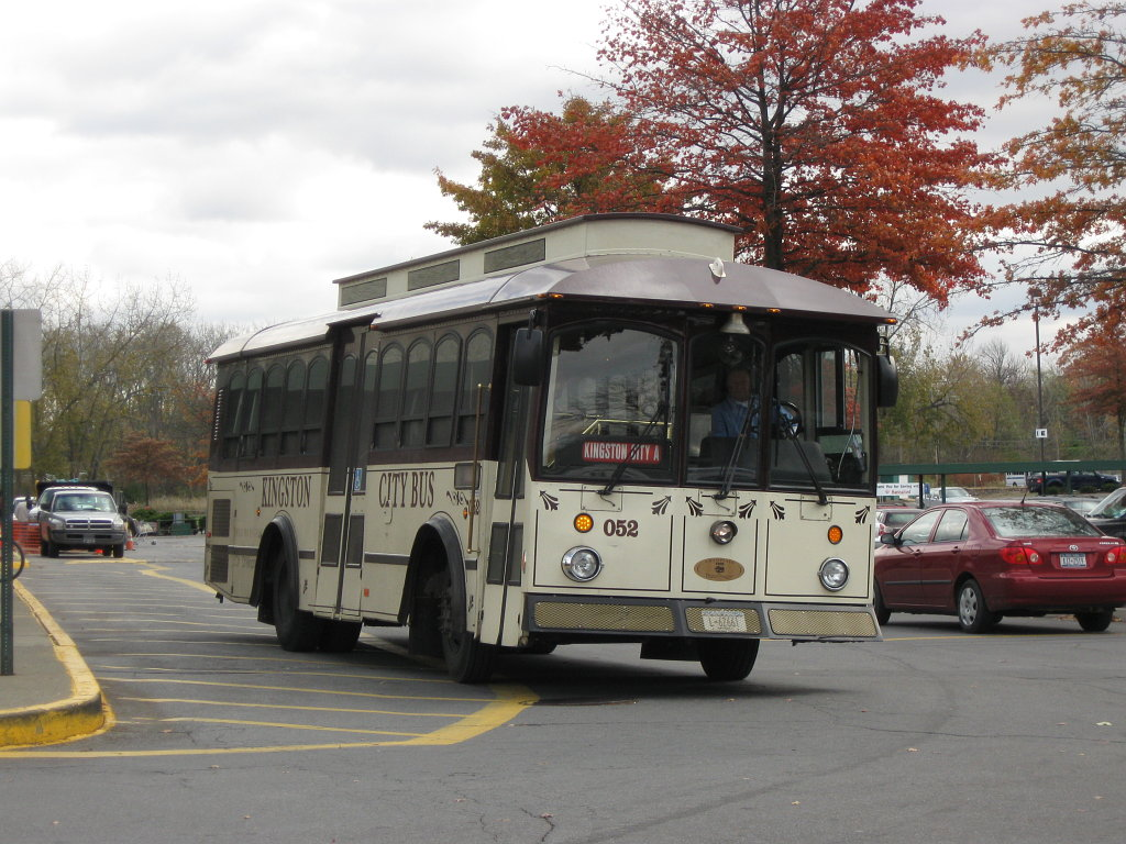 Kingston (New York) CitiBus #052 departs Hannaford's at Kingston Plaza on Route A.